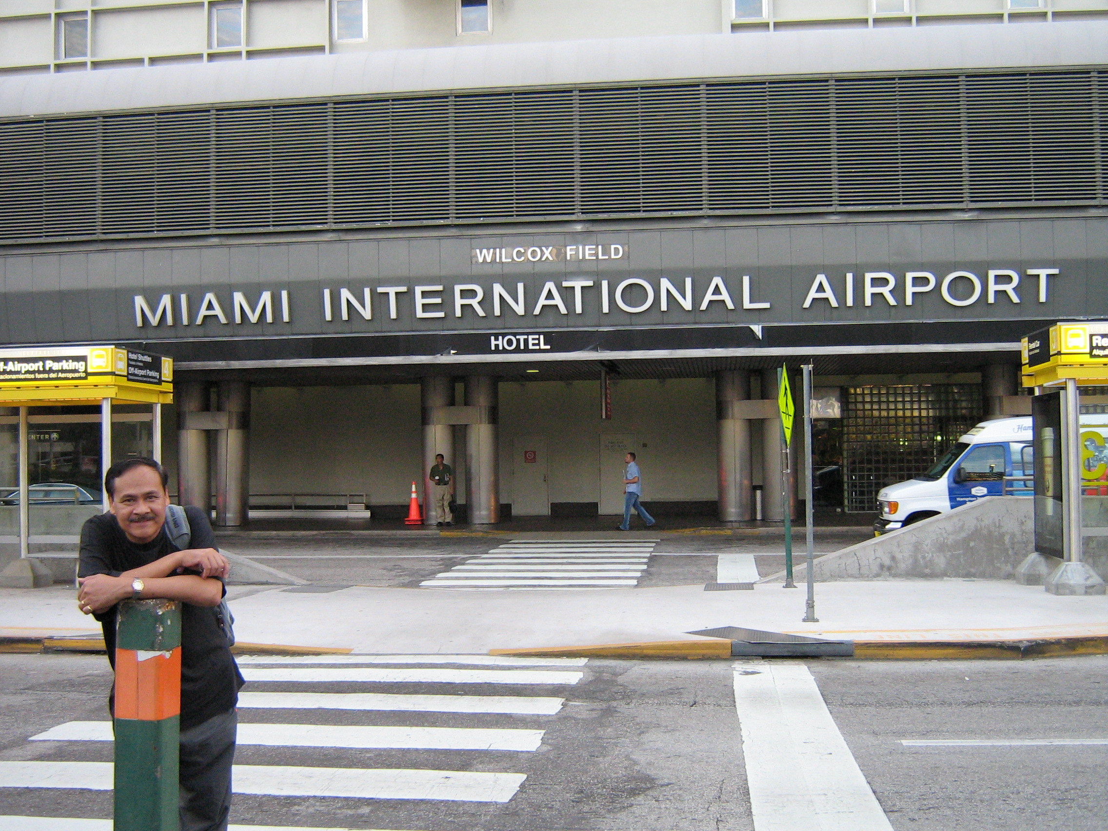 Miami International Airport Terminal